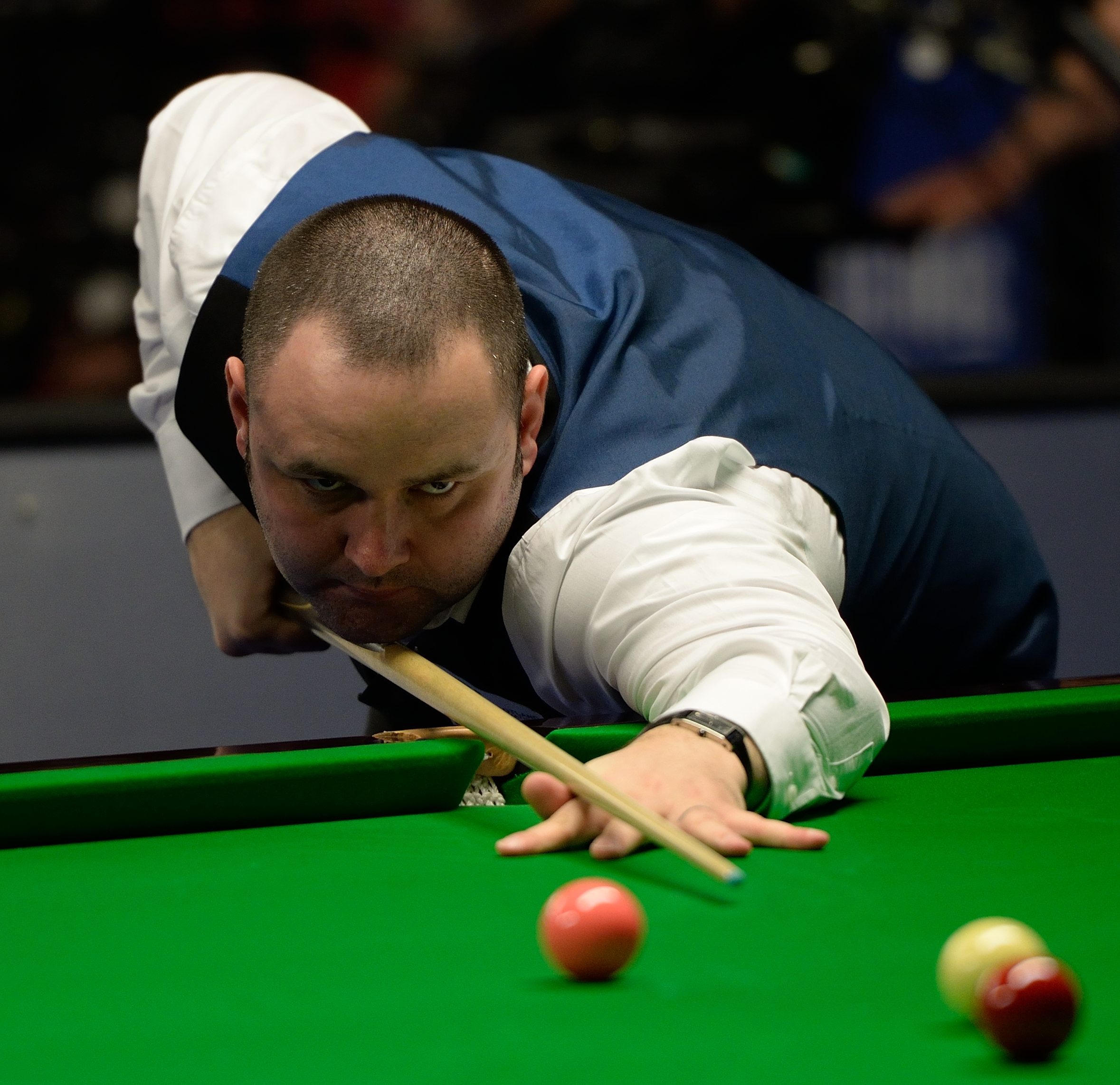 Picture taken in Berlin during the Snooker German Masters in 2015. Stephen Maguire.